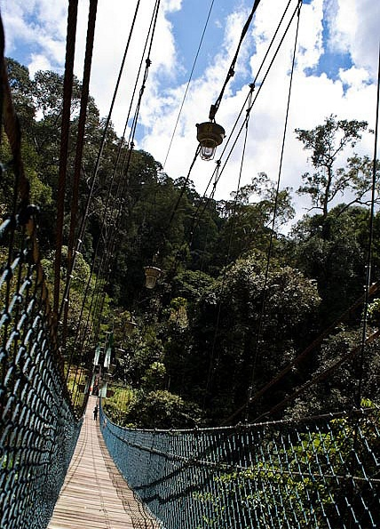 A suspension footbridge in Ulu Temburong National Park — in the isolated Temburong District of western Brunei, northwestern Borneo (island).